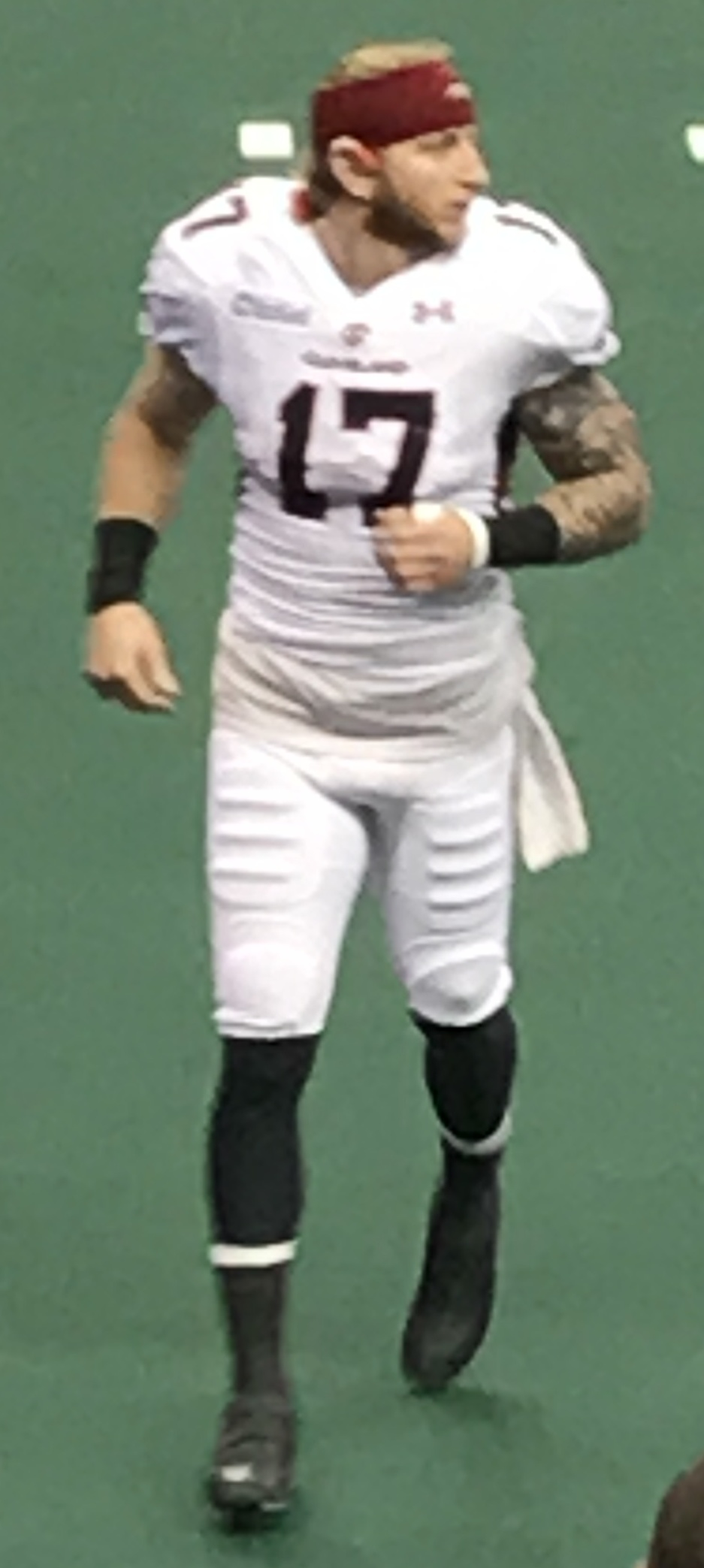 Colling Taylor in warmups